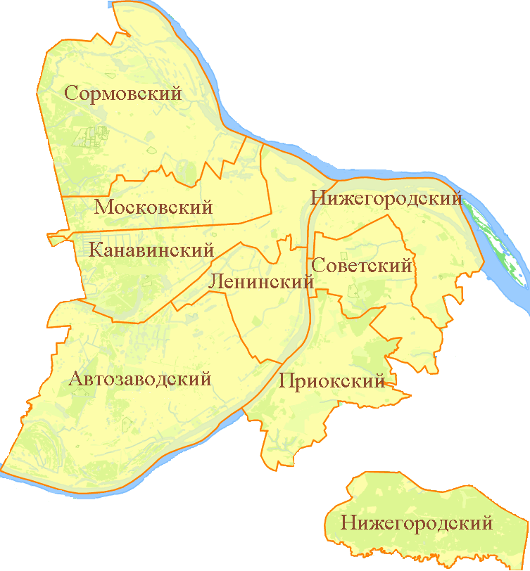 Nizhny Novgorod Districts (ок. 2005 г.)